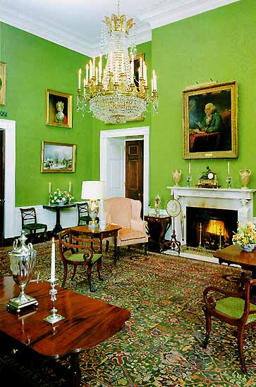 Green Room during the administration of William Jefferson Clinton.